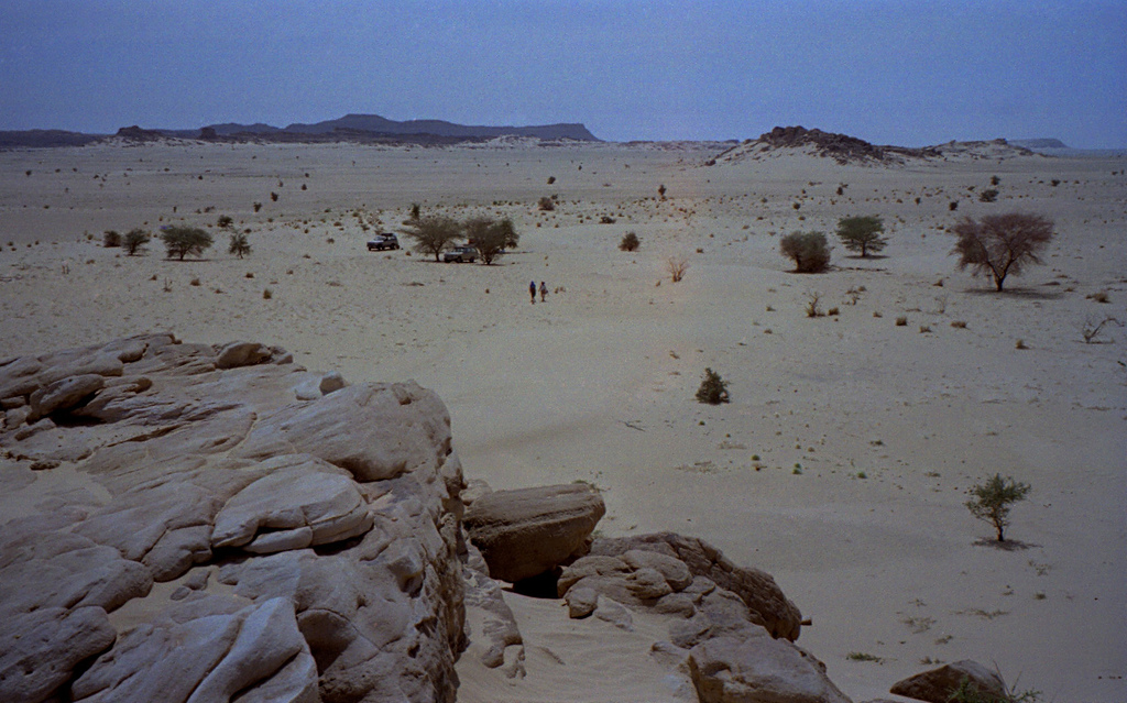 Southern edge of the Sahara Desert outside Agadez, Niger, 1997.1997 #278-13 Sahara